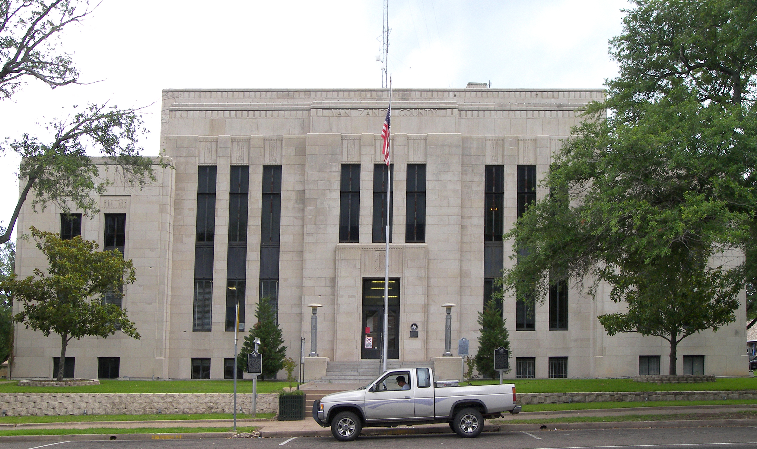 The Van Zandt County Courthouse in Canton, Texas, United States. The building was designated a Recorded Texas Historic Landmark in 1999.